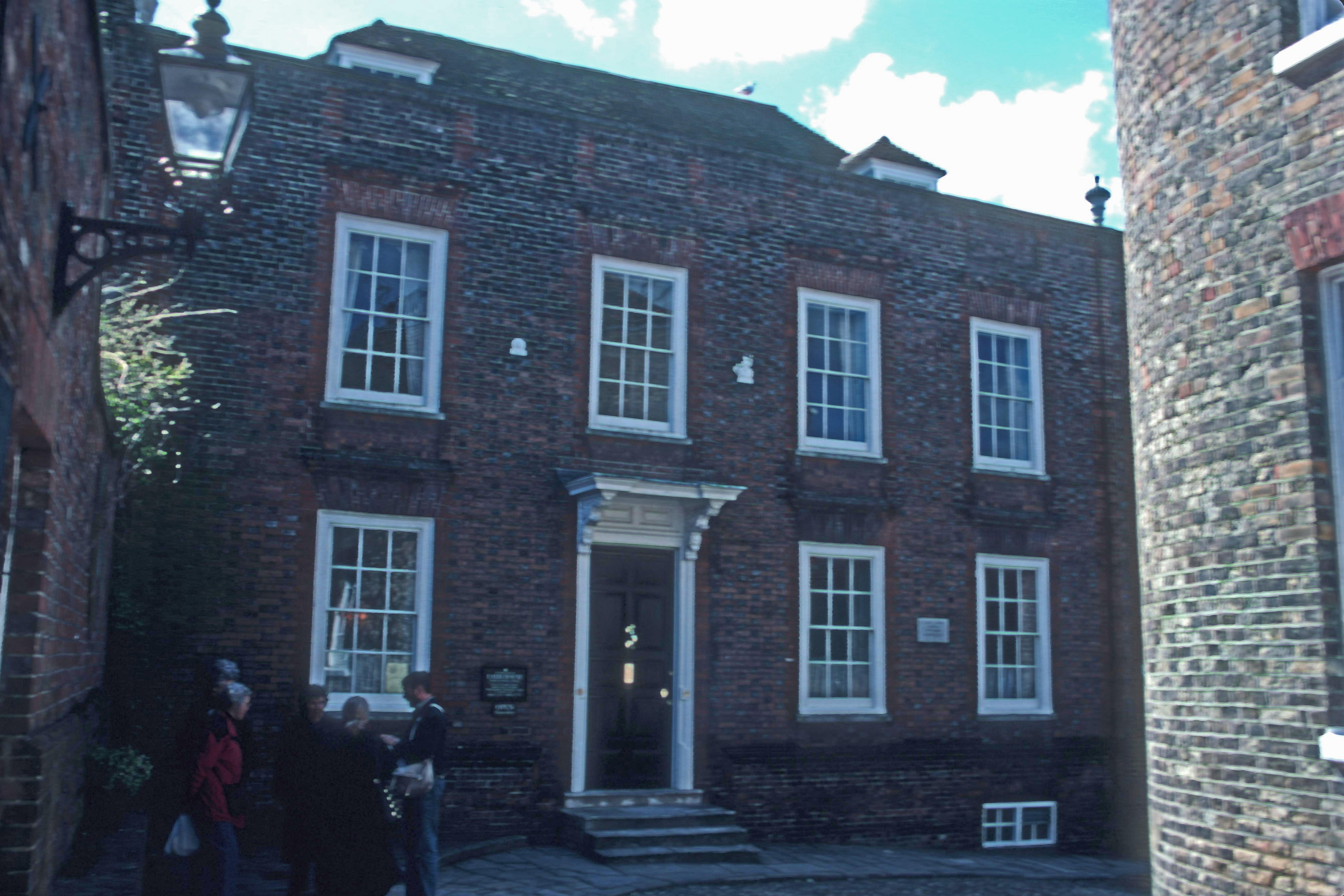 HOME OF HENRY JAMES FROM 1897 TO 1916